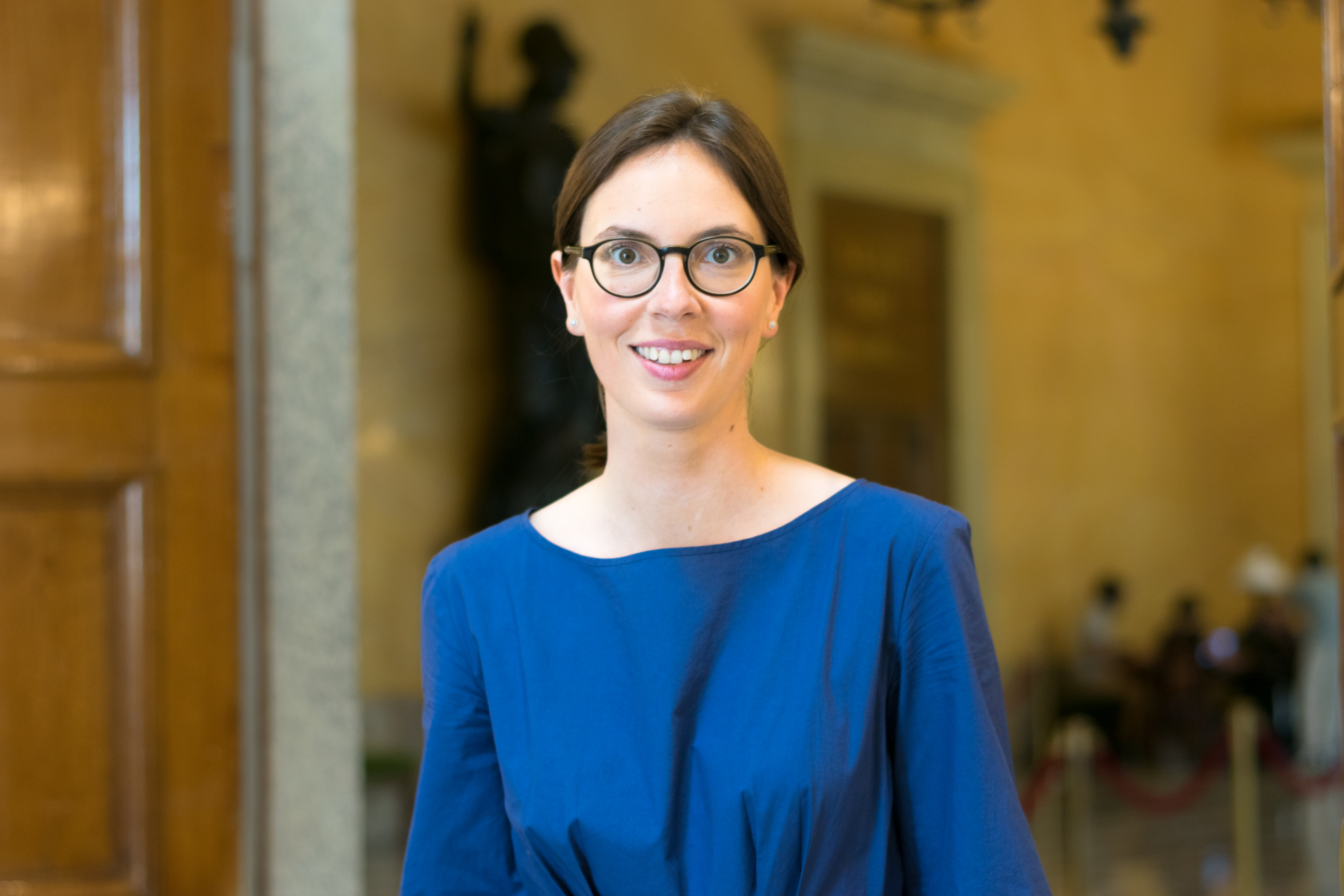 Amélie de Montchalin in the salle des Quatres Colonnes of the Palais Bourbon (Paris, France).